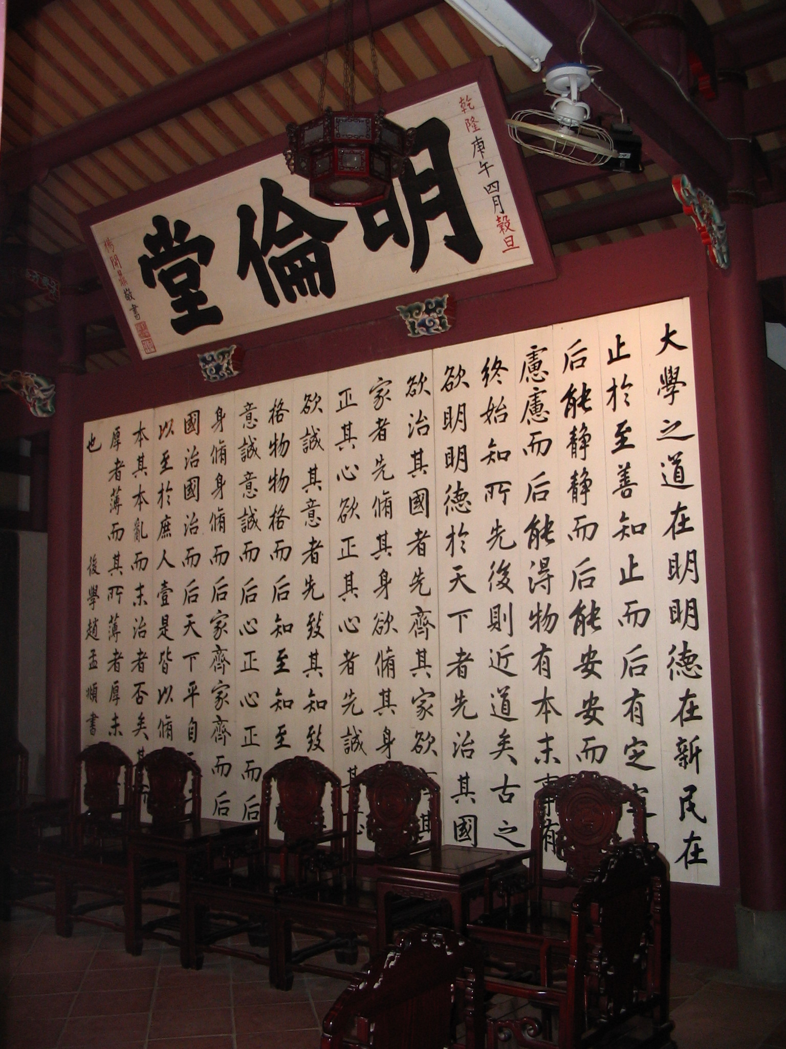 Reproduction of a calligraphy of Great Learning by Yuan calligrapher Zhao Mengfu at the Confucian temple in Tainan, Taiwan